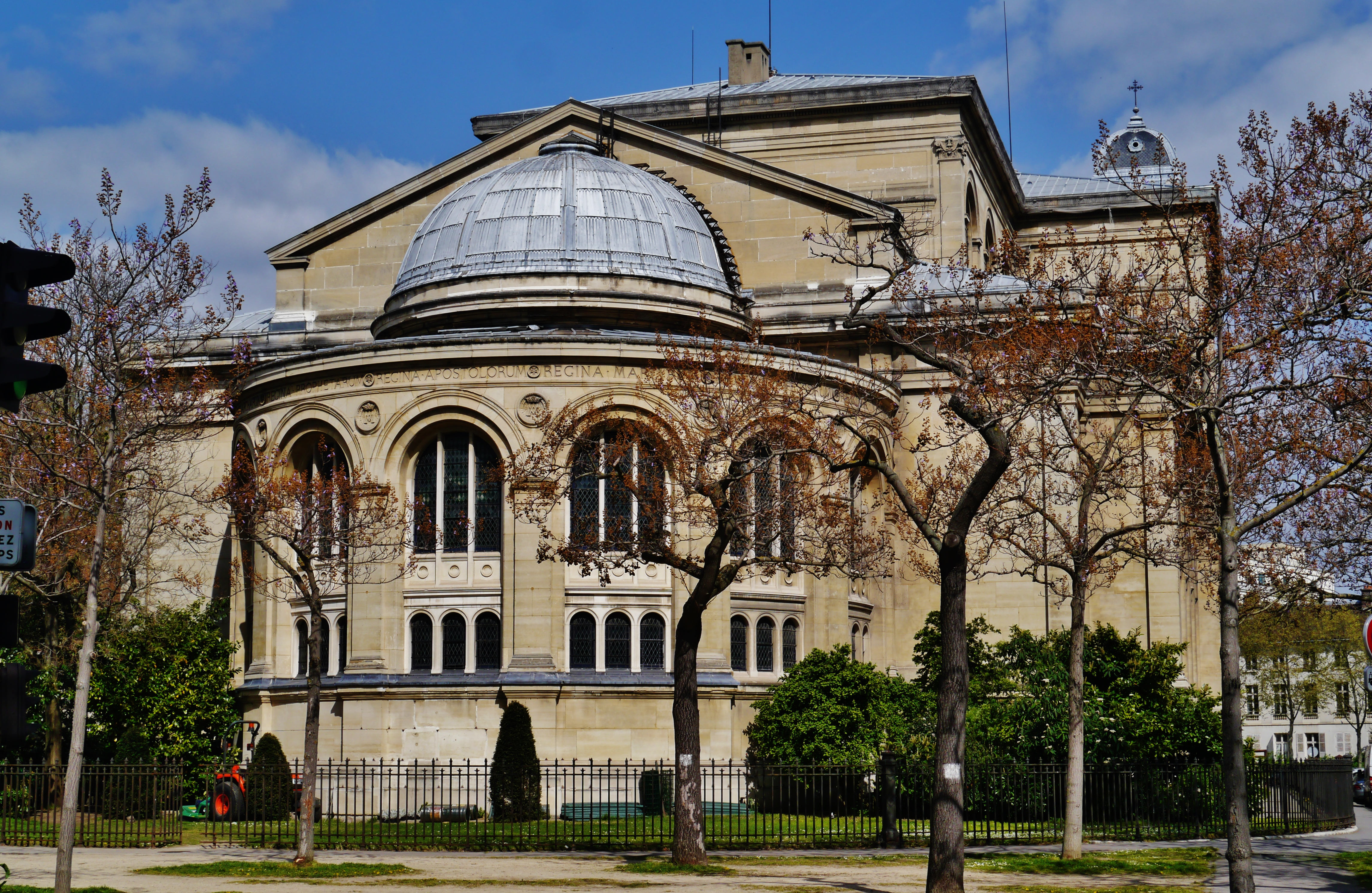 Choir of the Church St. Francis Xavier of the Foreign Missions, Paris, Region of Île-de-France, France